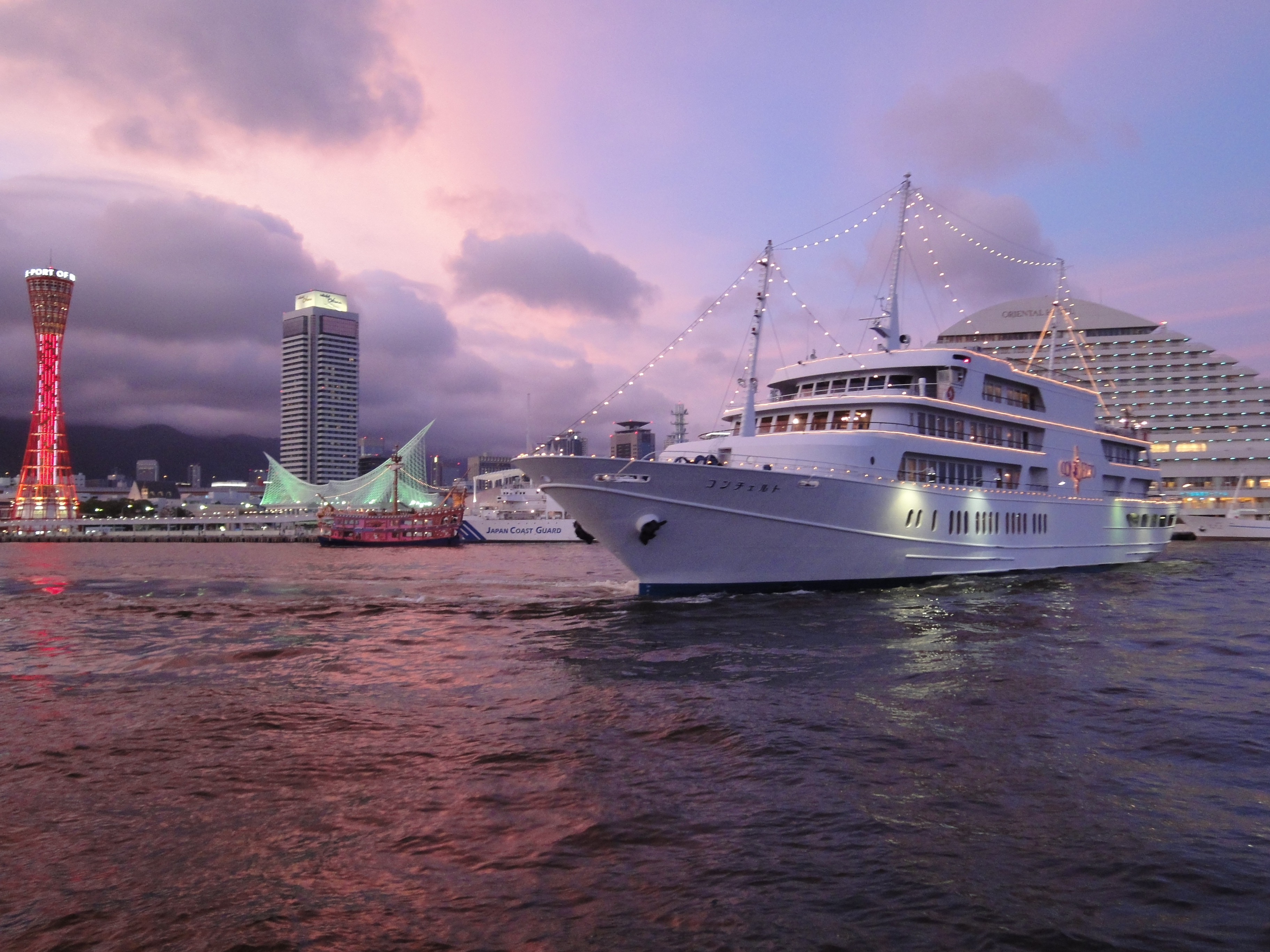 Ship "Concerto", Japan